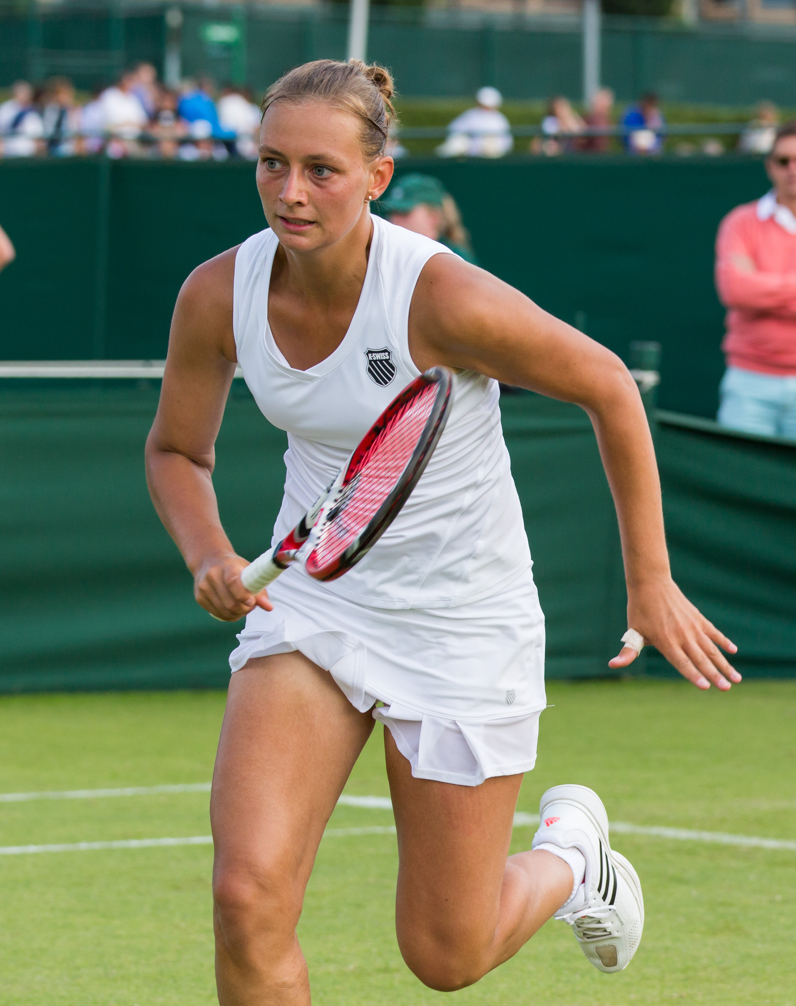 Cindy Burger competing in the first round of the 2015 Wimbledon Qualifying Tournament at the Bank of England Sports Grounds in Roehampton, England. The winners of three rounds of competition qualify for the main draw of Wimbledon the following week.